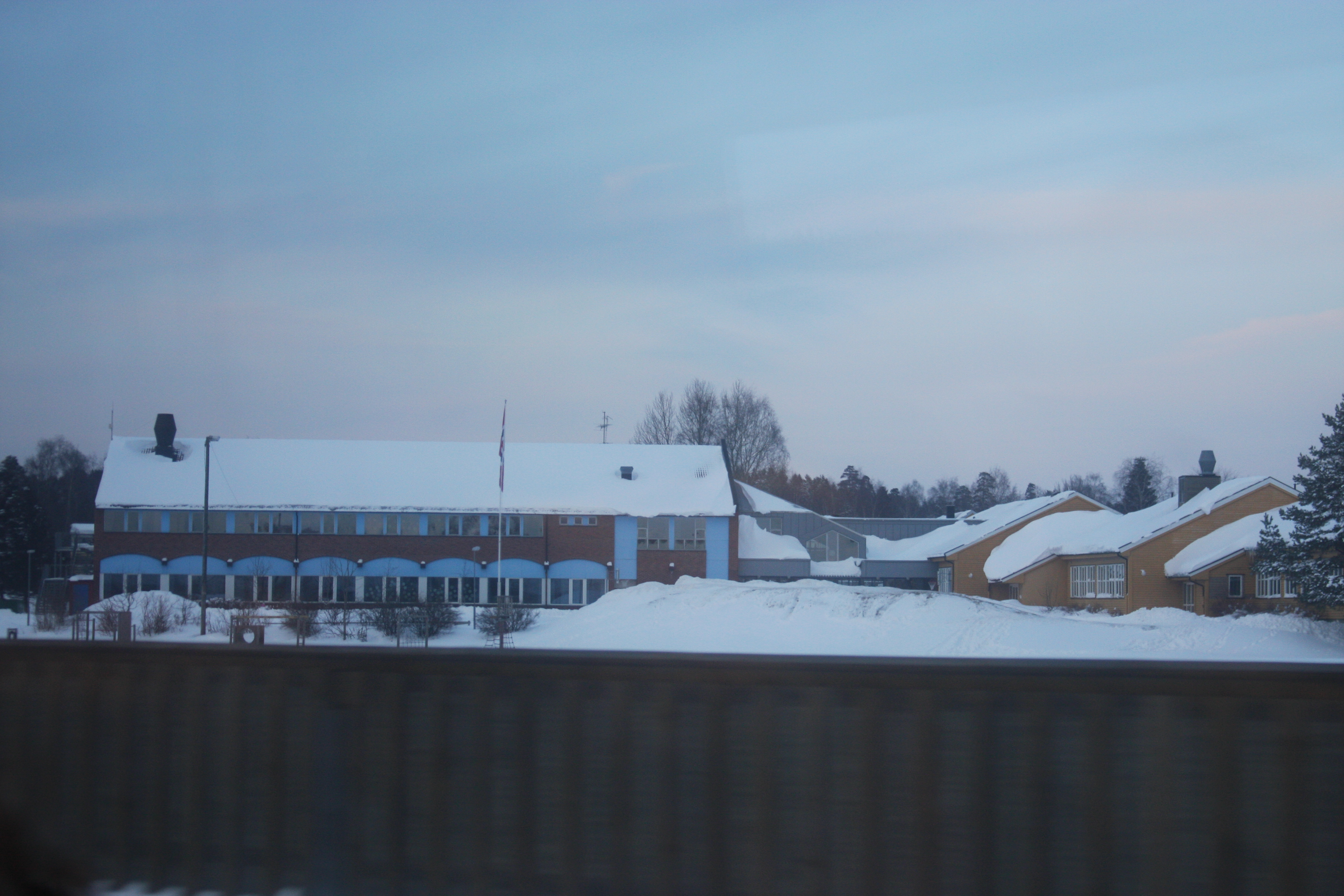 Halmstad school, in the village Rygge, Östfold (Norway).